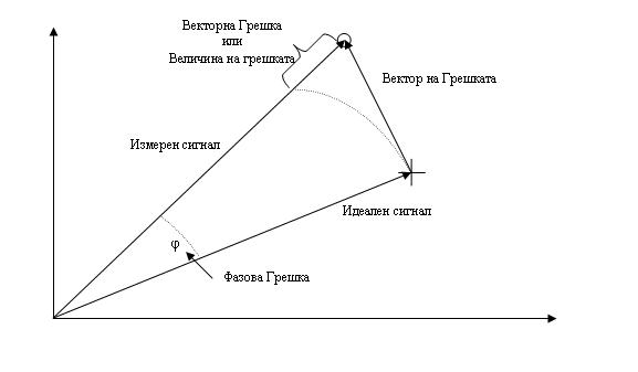 Error Vector Magnitude - bulgarian translation